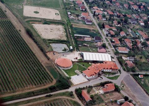 Ceglédbercel, Hungary, aerial photography